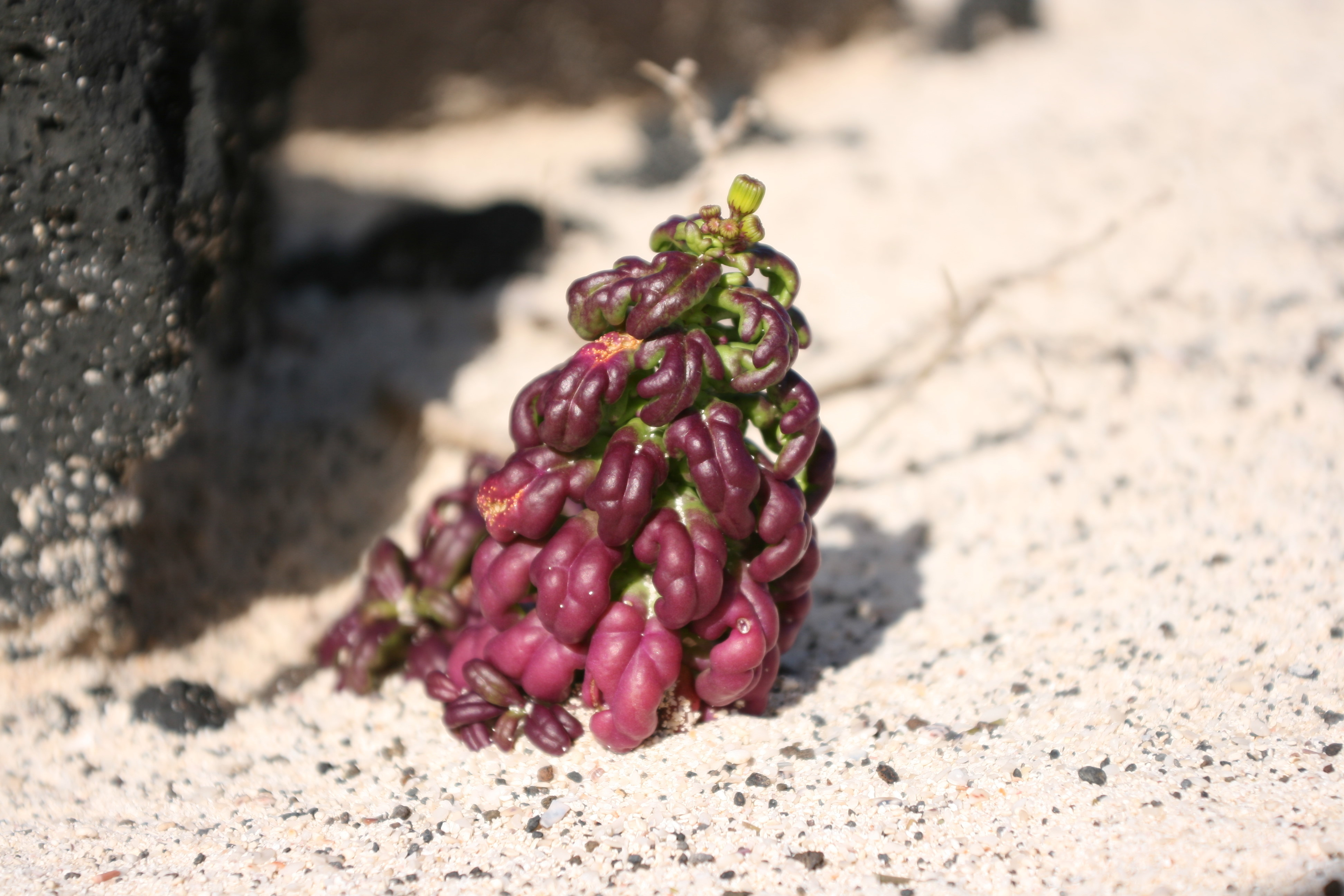 Senecio leucanthemifolius growing at La Caleta, Lugar Diseminado Maguez (LZ-1) in Haría